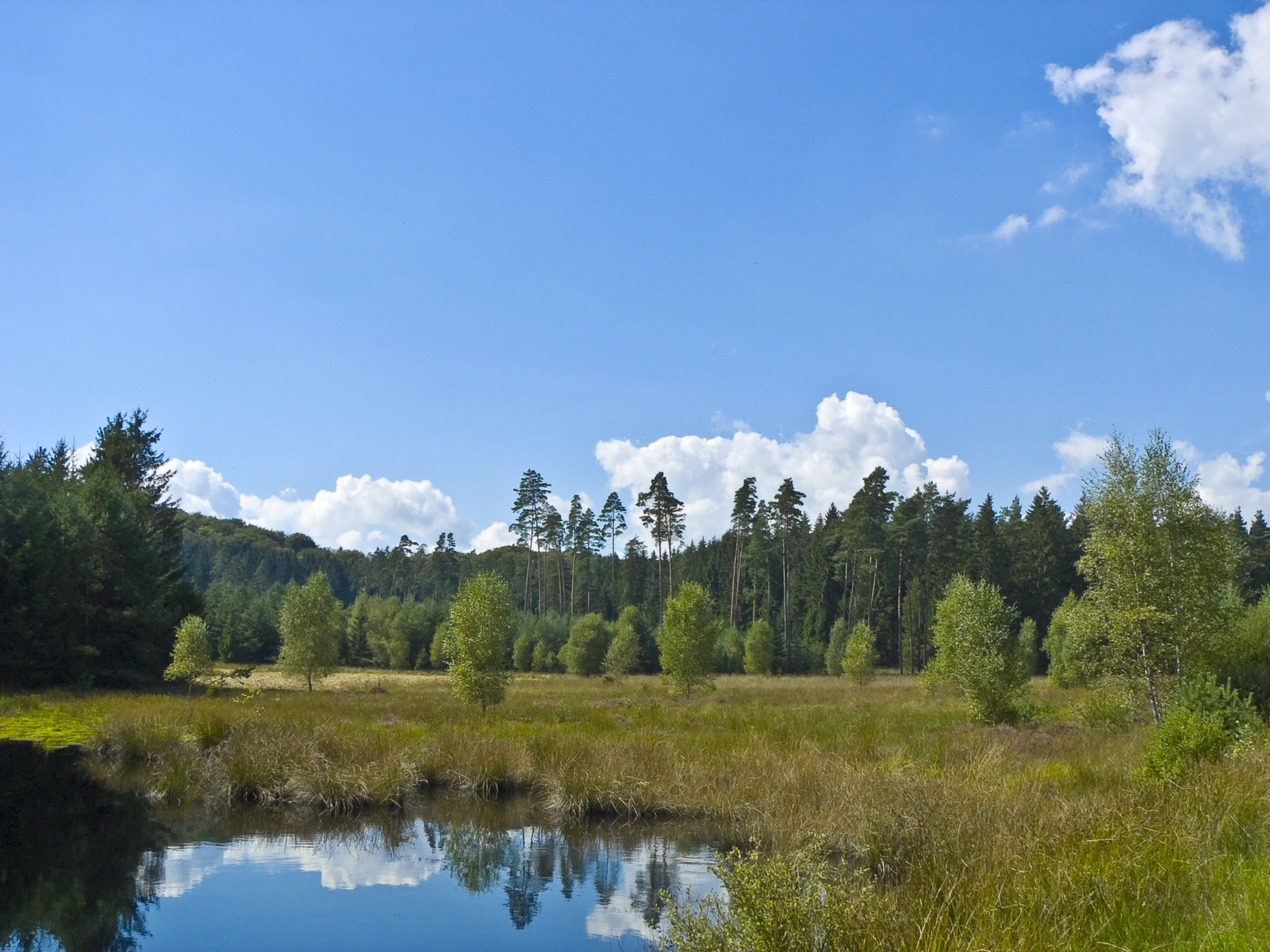 Bog, Location: Franzosenwiesen in the Burgwald, Hesse, Germany